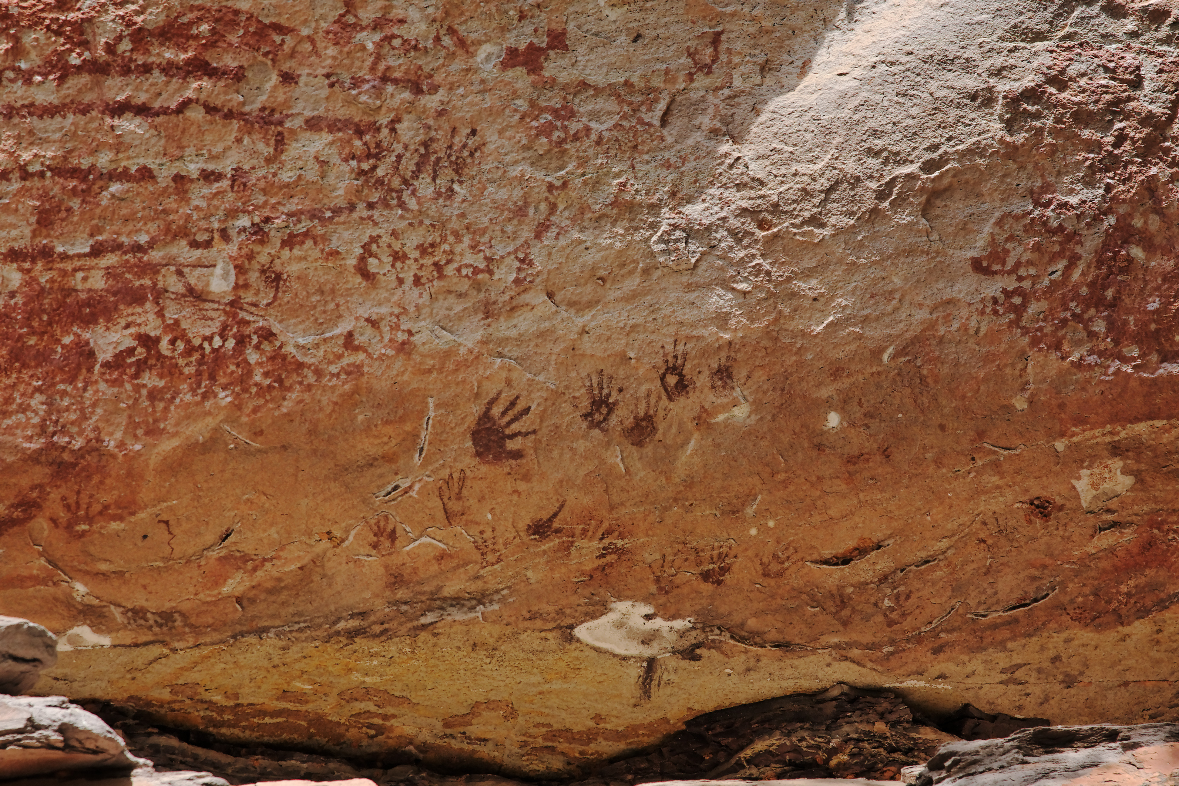 Pha Taem National Park, Ubon Ratchathani province, Thailand